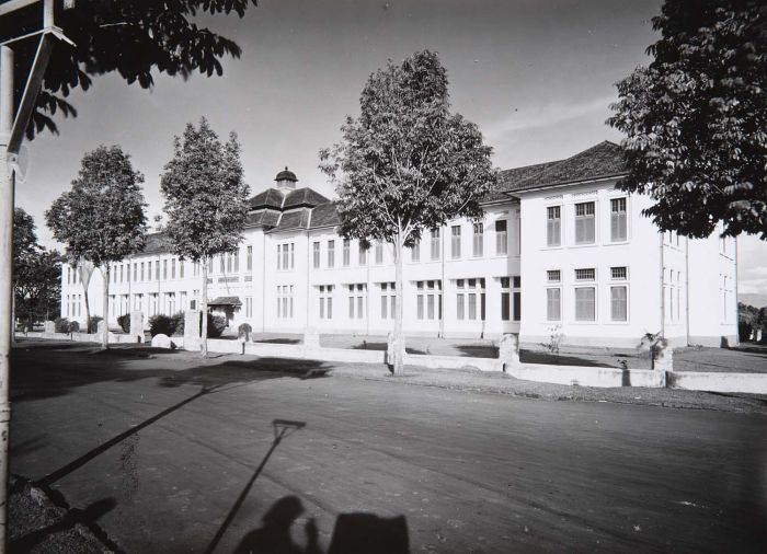 'HBS' building